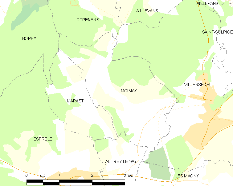 Map of French municipality